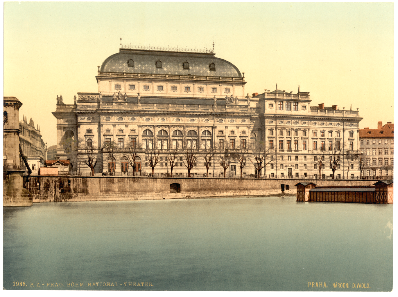 This late-19th century photochrome print is from “Views of the Austro-Hungarian Empire” in the catalog of the Detroit Publishing Company. It shows the National Theater in Prague or, as it was known at that time, the Bohemian National Theater. The building was designed in a Neo-Renaissance style by Josef von Zitek (1832-1909), professor of civil engineering at the technical college in Prague. Construction began in 1868 and was completed in 1881. Shortly after the grand opening, a fire destroyed much of the building, but the theater was rebuilt in less than two years, financed by contributions from the public. The Detroit Photographic Company was launched as a photographic publishing firm in the late 1890s by Detroit businessman and publisher William A. Livingstone, Jr. and photographer and photo-publisher Edwin H. Husher. They obtained the exclusive rights to use the Swiss "Photochrom" process for converting black-and-white photographs into color images and printing them by photolithography. This process permitted the mass production of color postcards, prints, and albums for sale to the American market. The firm became the Detroit Publishing Company in 1905. Cities and towns; Theaters; Vltava River (Czech Republic)